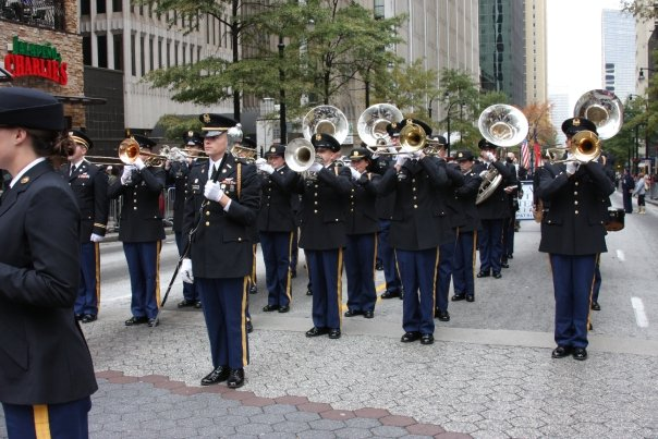 GEB parade